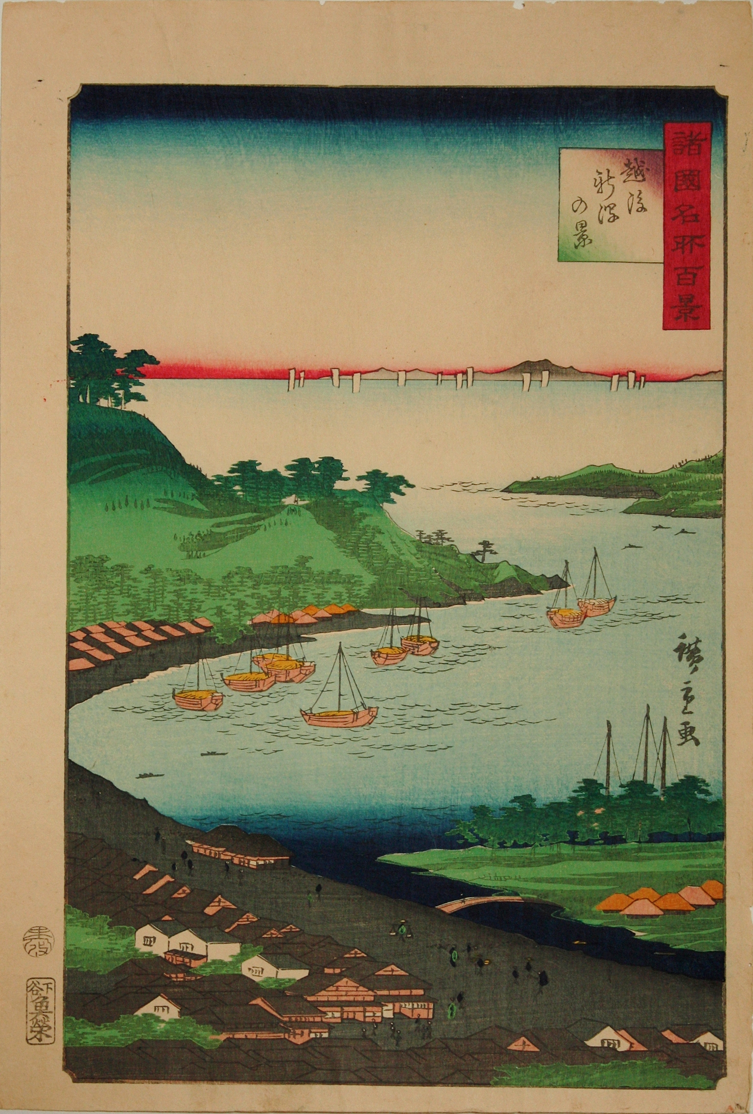 Echigo Niigata of One Hundred Famous Views in the Provinces.